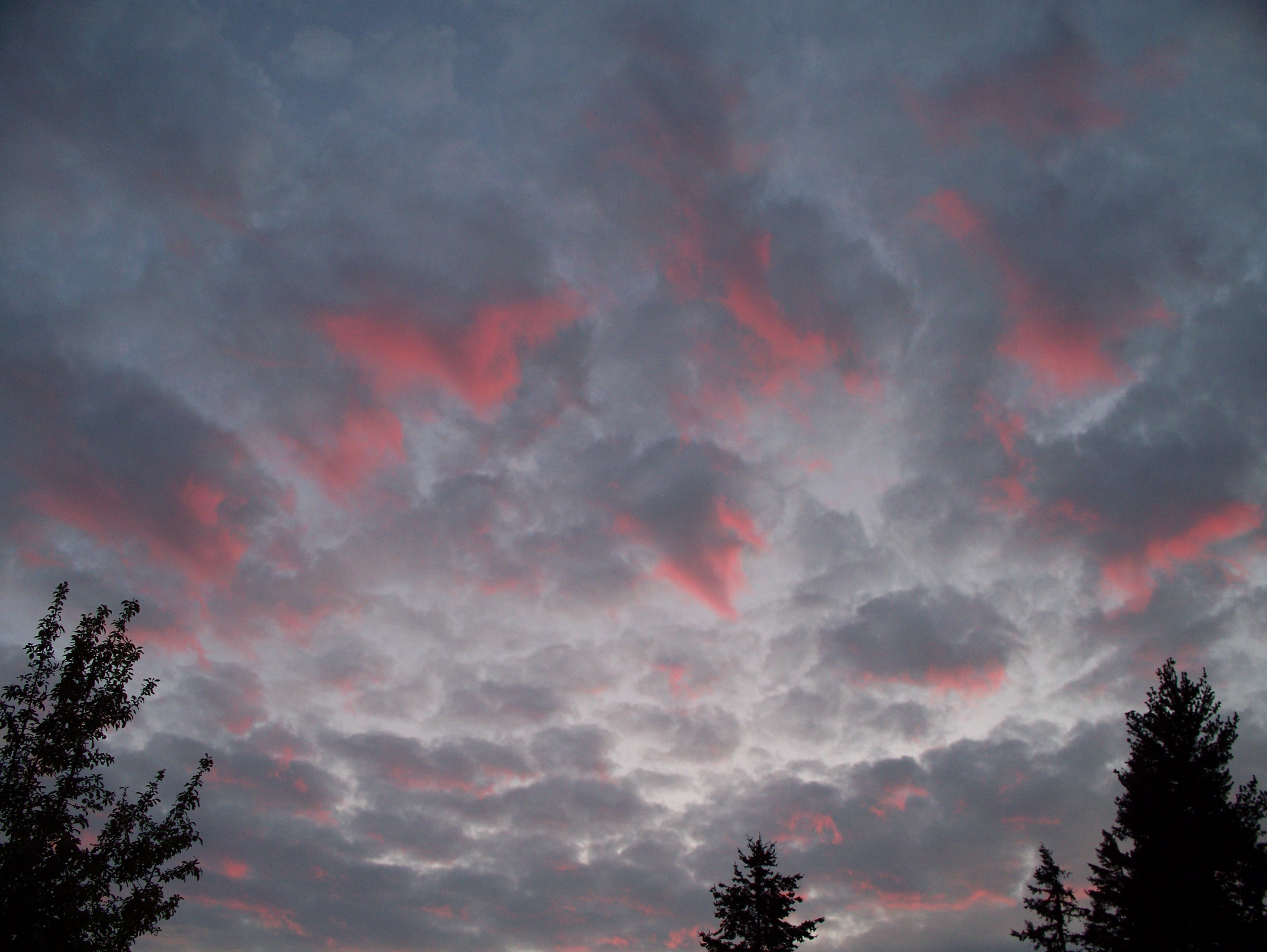 Clouds at sunset in Lynnwood, Washington.